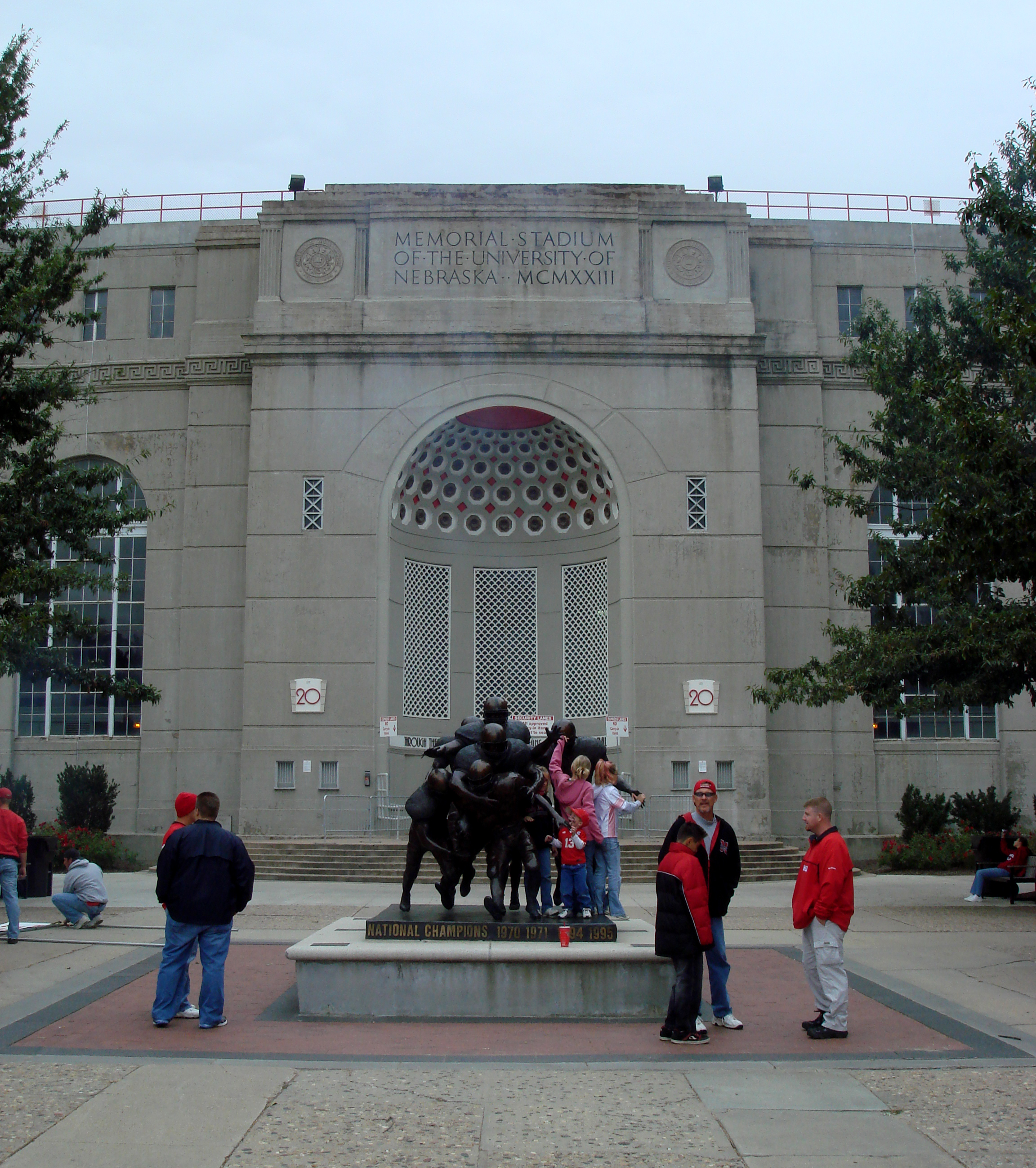 Eastern face of Memorial Stadium in Lincoln, Nebraska: home of the Nebraska Cornhuskers football team.